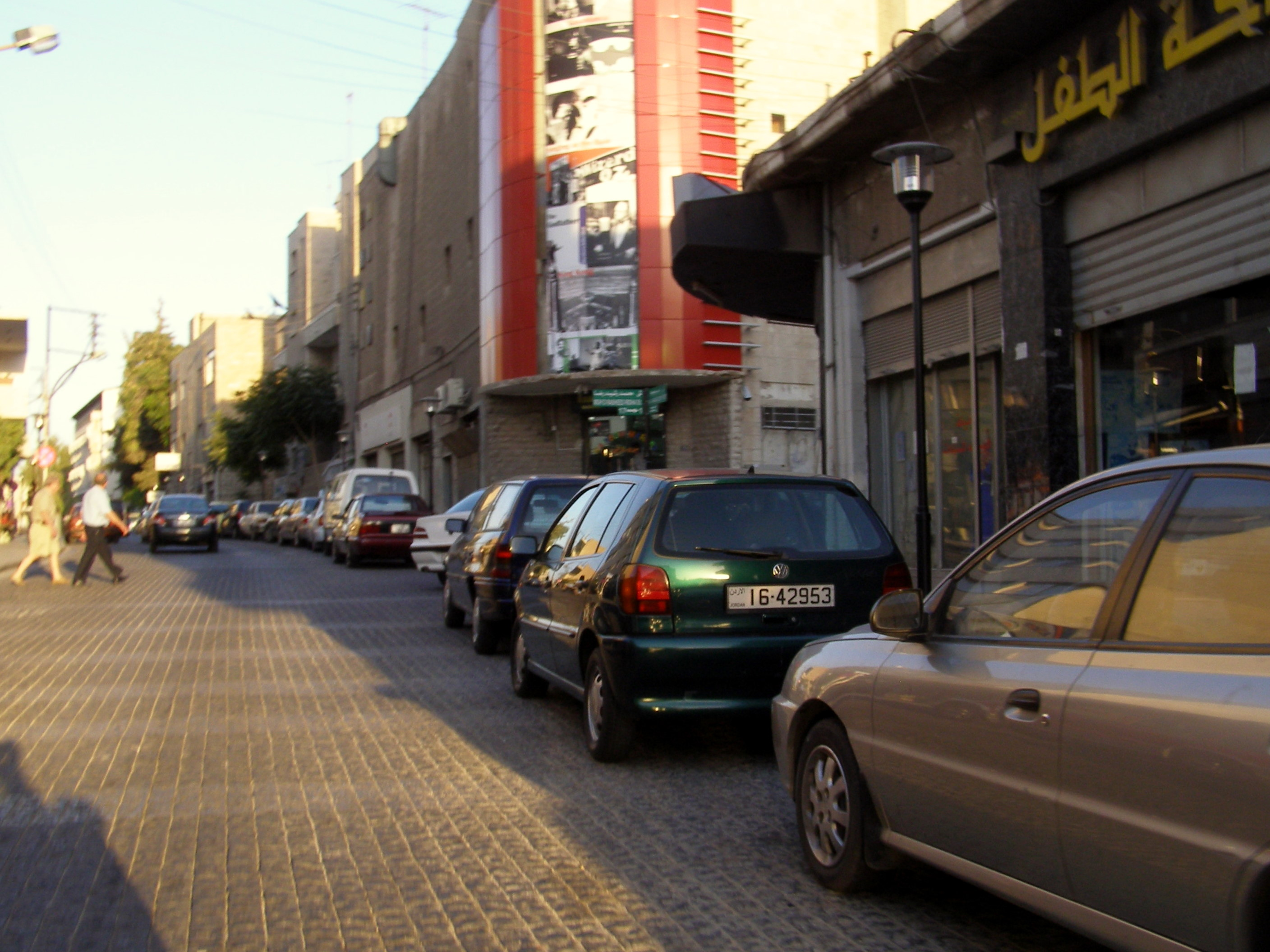 Rainbow Street